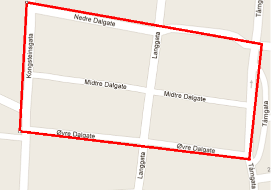 Map of Pedersdalen in Stavanger, Norway